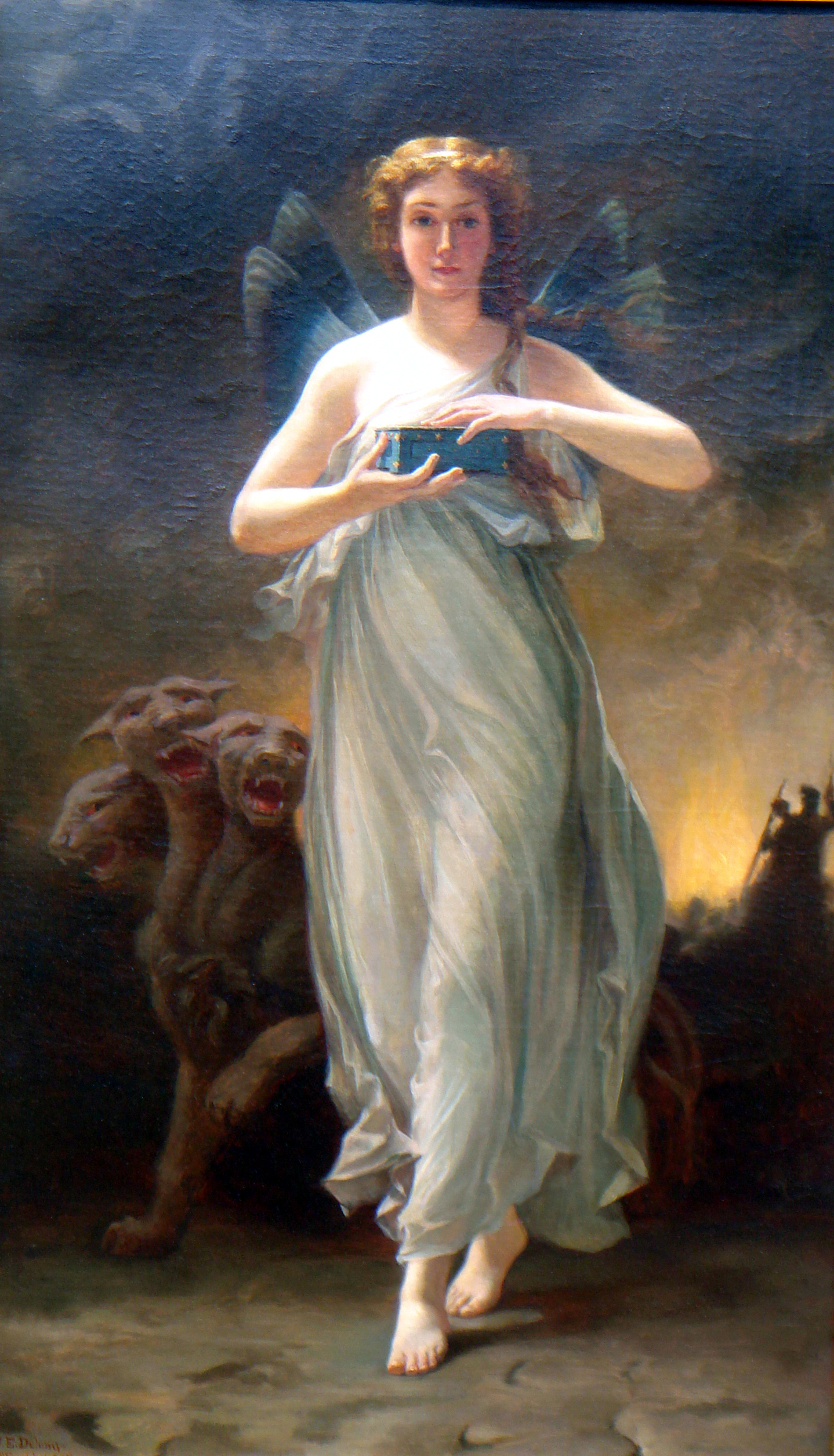 Oil Painting done 1889 in Paris, France by Jenny Eakin Delony "Psyche" after Curzon